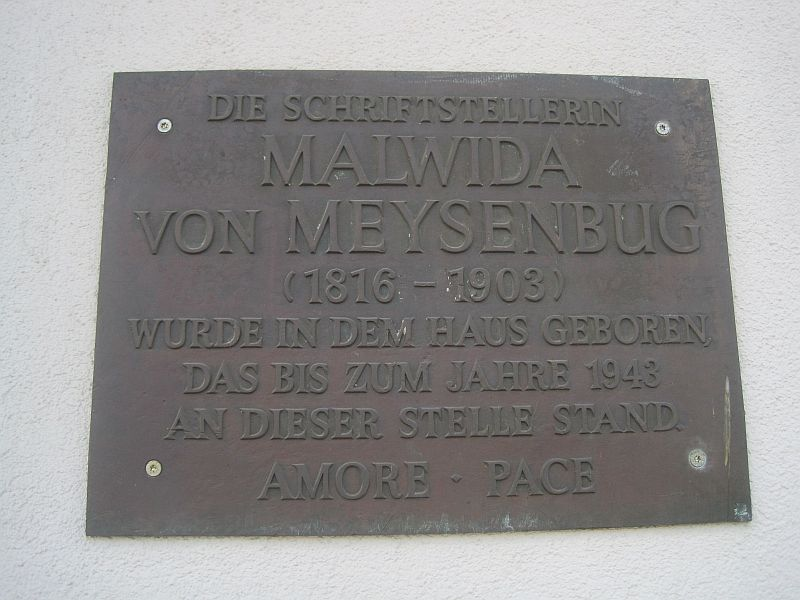 Plaque Malwida von Meysenbug, Kassel, Germany